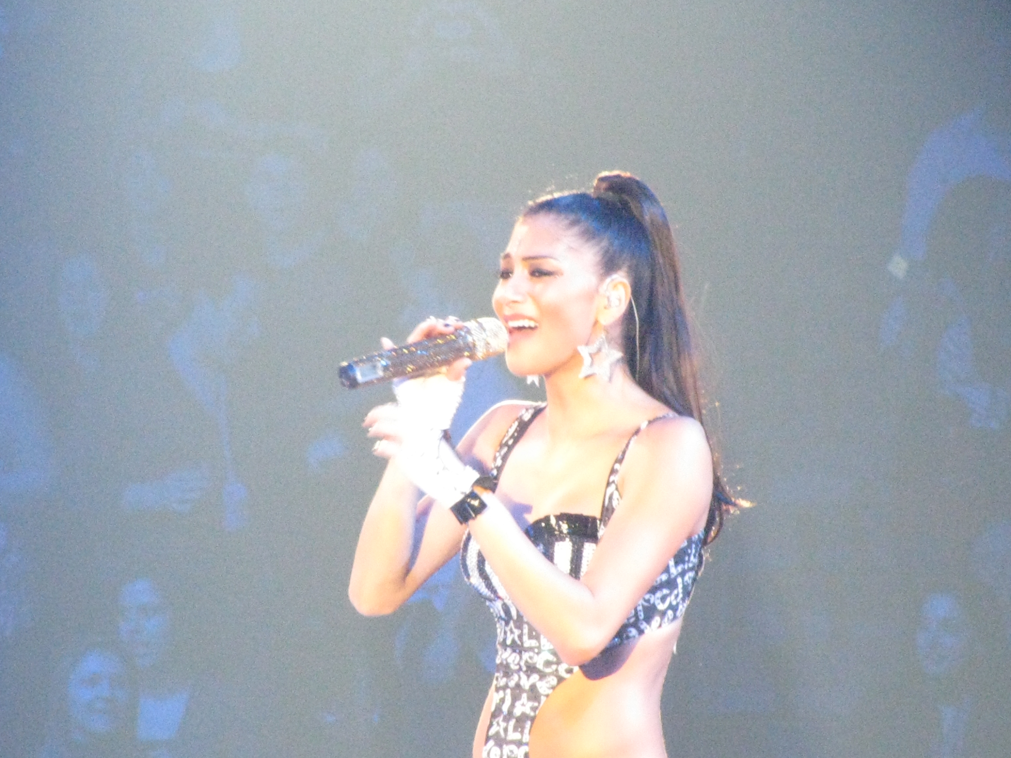 Singer Nicole Scherzinger In petercruise's buddy icon Britney Spears Boston, MA 3/16/09